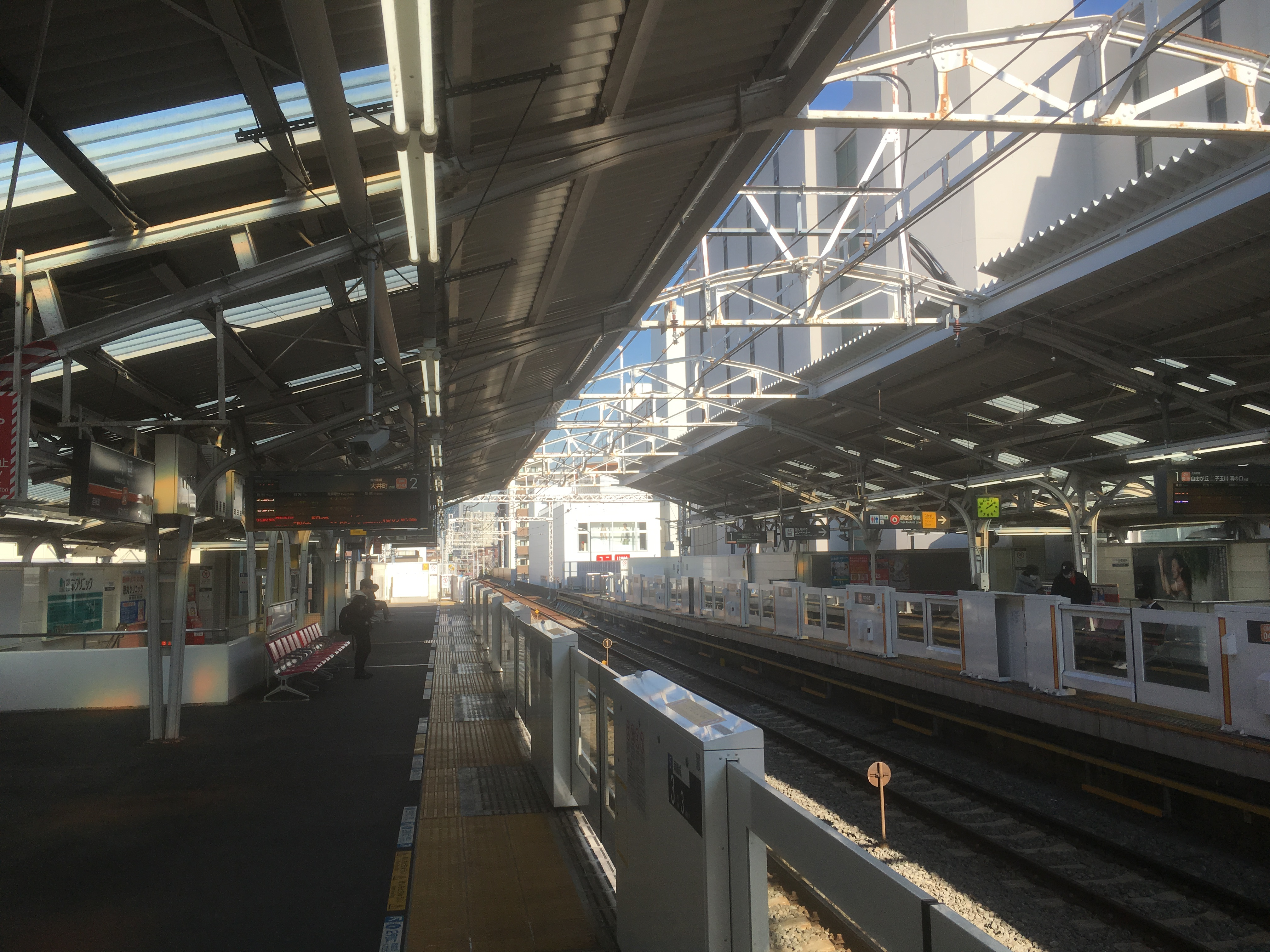 中延駅のホーム (Nakanobu Station platforms)